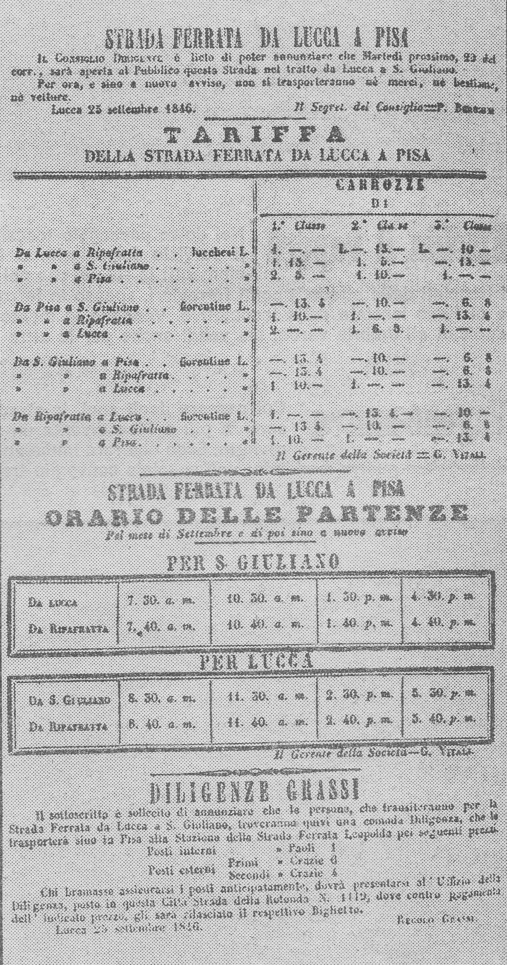 Price list of Lucca-Pisa railway, Tuscany, Italy.